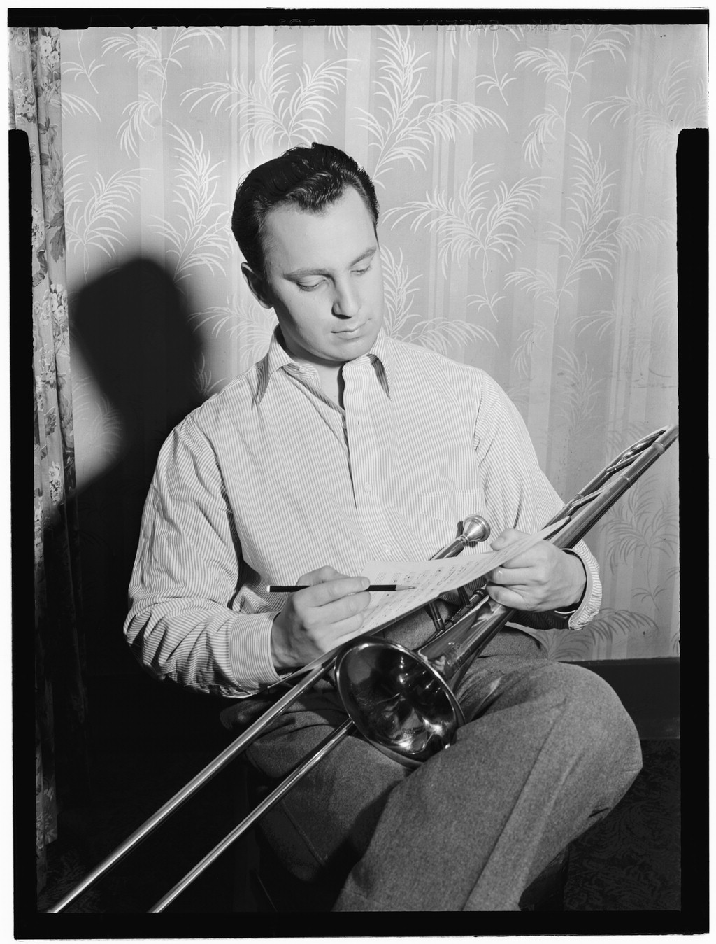 Buddy Morrow, New York, N.Y., ca. May 1947 (Photograph by William P. Gottlieb)